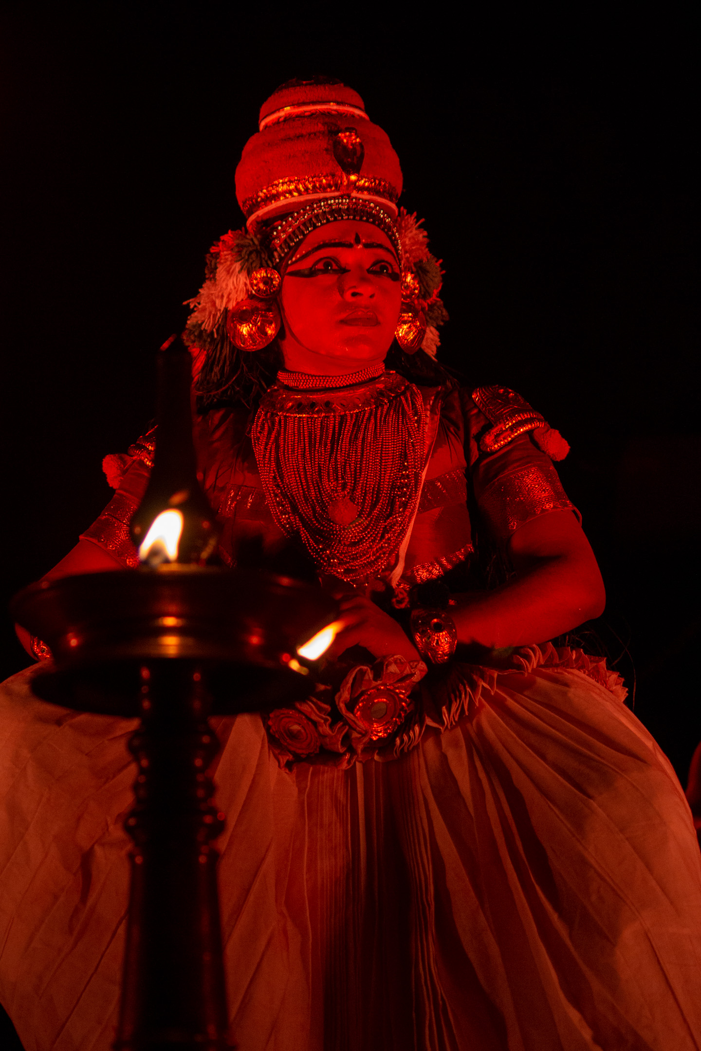 A dressed-up Koodiyattam performer. This photo has been taken in the country: India